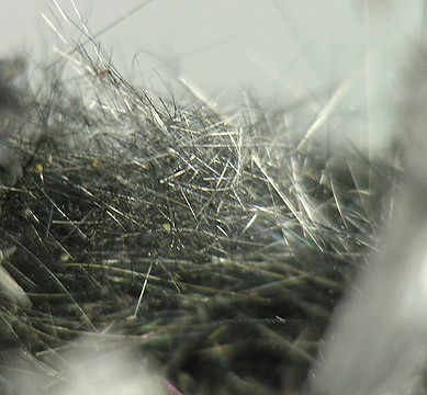 Franckeite (Var.: Potosíite), Franckeite, Jamesonite Locality: San José Mine, Oruro City, Cercado Province, Oruro Department, Bolivia (Locality at ) Size: 8.2 x 4.4 x 2.1 cm. From the find of 2004, this specimen hosts two rare sulfosalts. This specimen is a rare, superb, crystallized specimen of the triclinic lead, antimony, iron, tin sulfosalt Potosiite consisting of several, extremely rare, highly lustrous, heavily striated, tabular blades (some are twinned) of Potosiite measuring up to 9 mm sitting atop crystallized and the equally rare triclinic lead, tin, iron, antimony sulfosalt Franckeite. The piece has a small amount of associated acicular Jamesonite as well. The Potosiite has been positively identified through X-ray Diffraction.